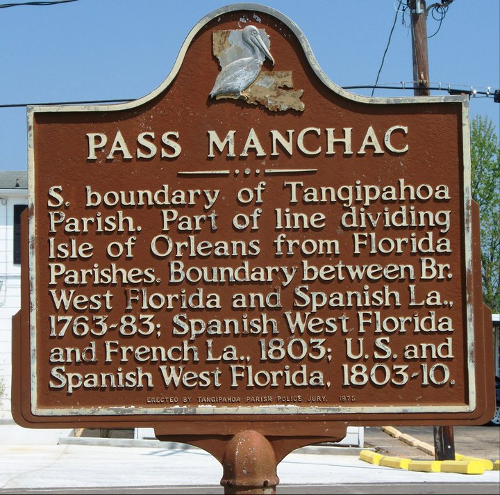 Historical marker in Manchac (Akers), Louisiana, on the north bank of Pass Manchac, 2011 April.